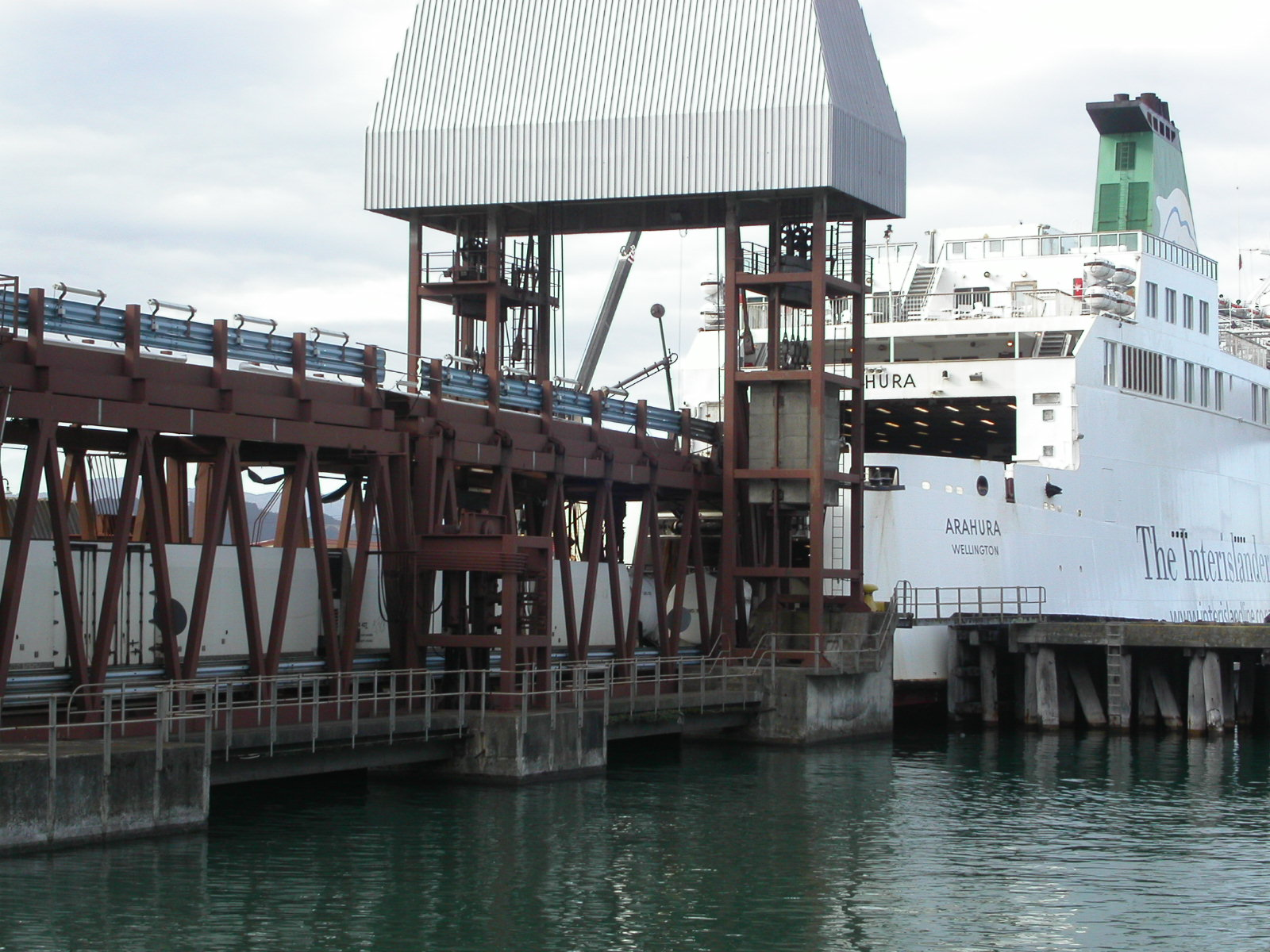 Cook Strait ferry, Arahura loading at the Wellington terminal. This system is somewhat unique in that the ferry can load road and rail vehicles simultaneously using a dual apron setup.